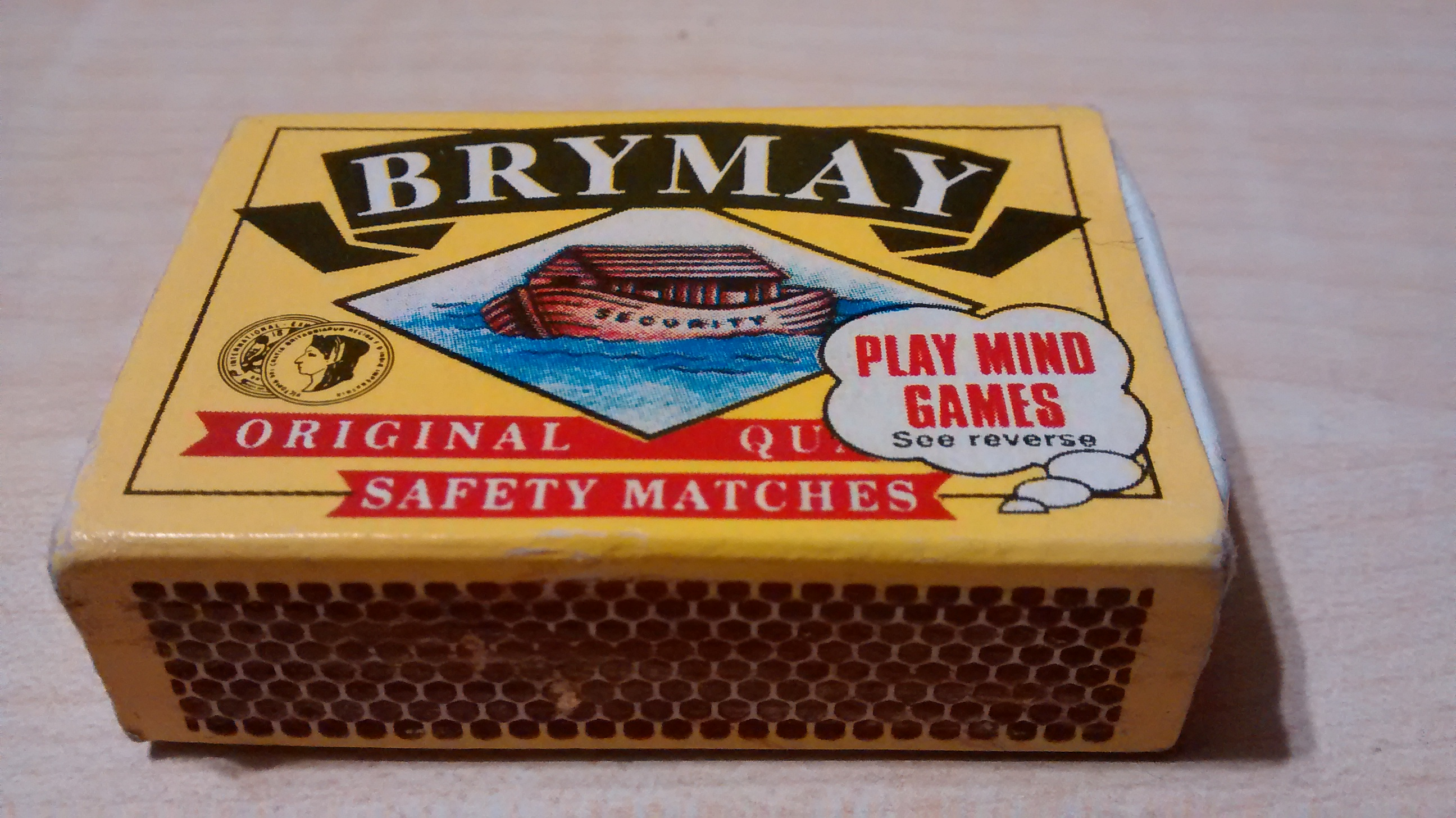 Front of Brymay Quick Matches